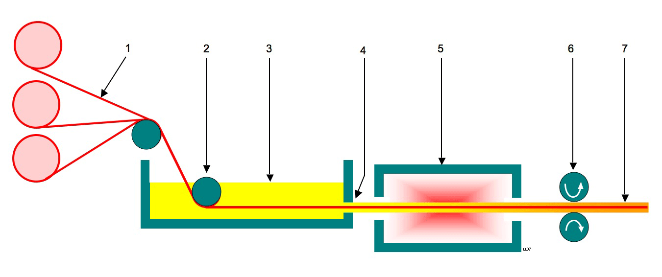 Pultrusion. Visualization of the pultrusion process. March 2007. Laurens van Lieshout. 1 resine 2 3bac de resine 4 5four